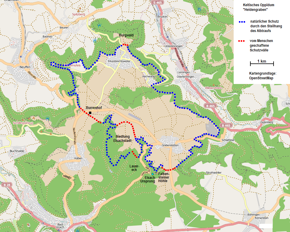 map which shows the area of the celtic oppidum "Heidengraben" near Grabenstetten (Germany)